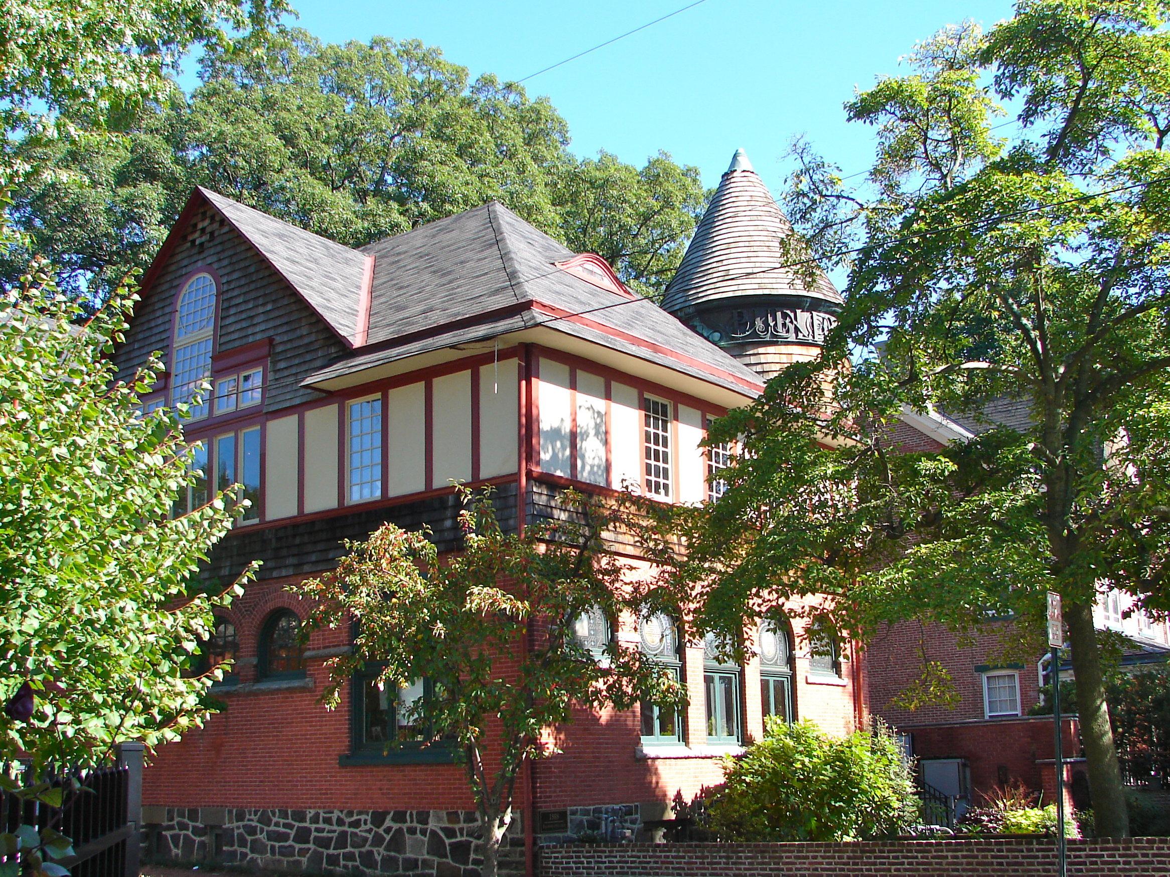 West Chester Public Library on Church Street, in West Chester, Pennsylvania. Just under the tower's conical roof are metal letters spelling out "Public Library" Built 1872